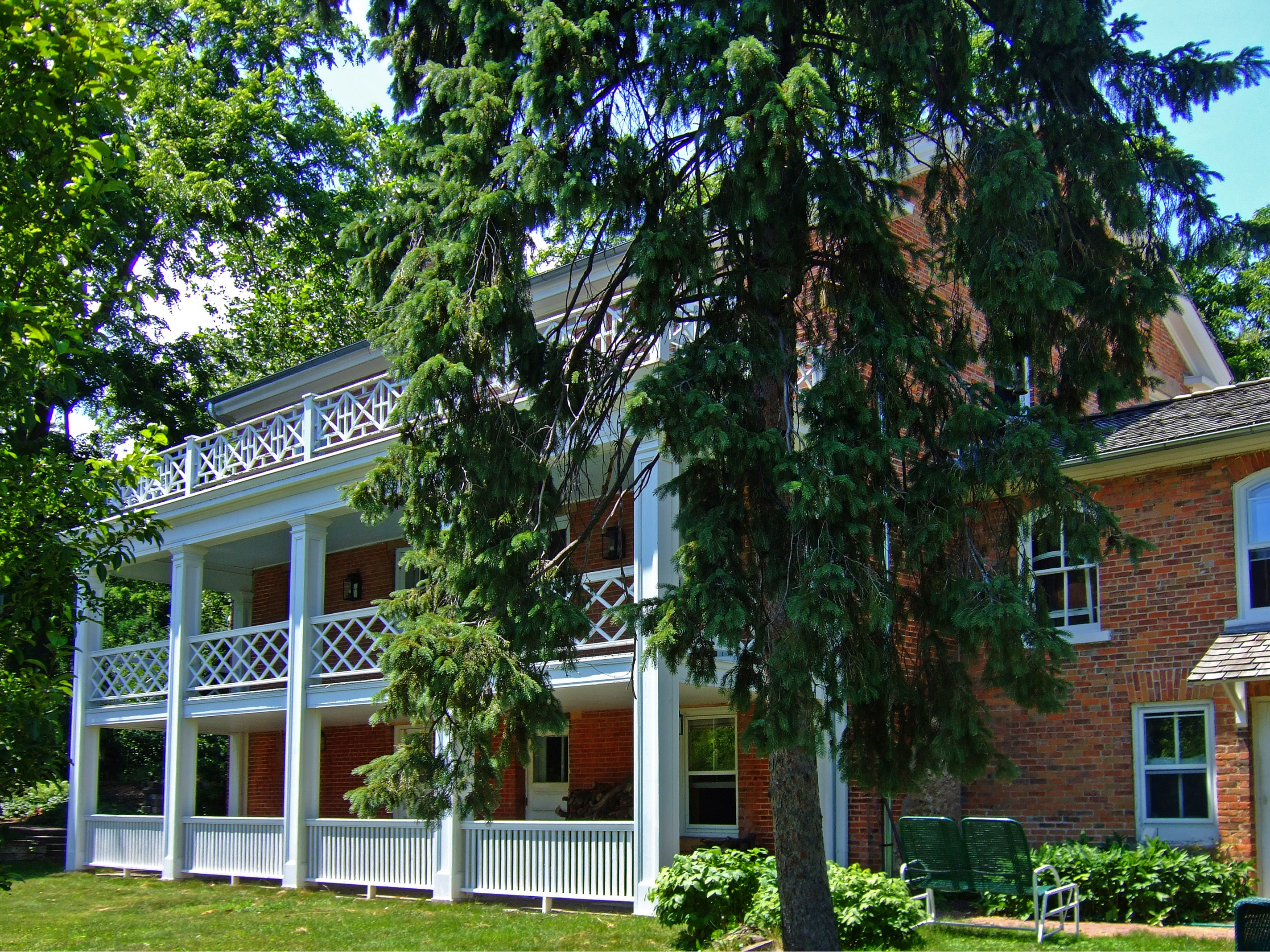 The Old Spring Tavern at 3706 Nakoma Road in Madison, Wisconsin, also called Gorham's Hotel, was a stagecoach stop on the Madison-Monroe road for travelers to and from lead mines in the western part of the state. This Greek revival brick structure was built in 1854 for Madison dry goods merchant Charles E. Morgan. In 1860, James W. Gorham bought the hotel, and his wife and children lived here while he served in the Civil War. The house remained in the Gorham family until 1922. In later years, the house achieved fame for its tollhouse cookies. It was added to the National Register of Historic Places in 1976.